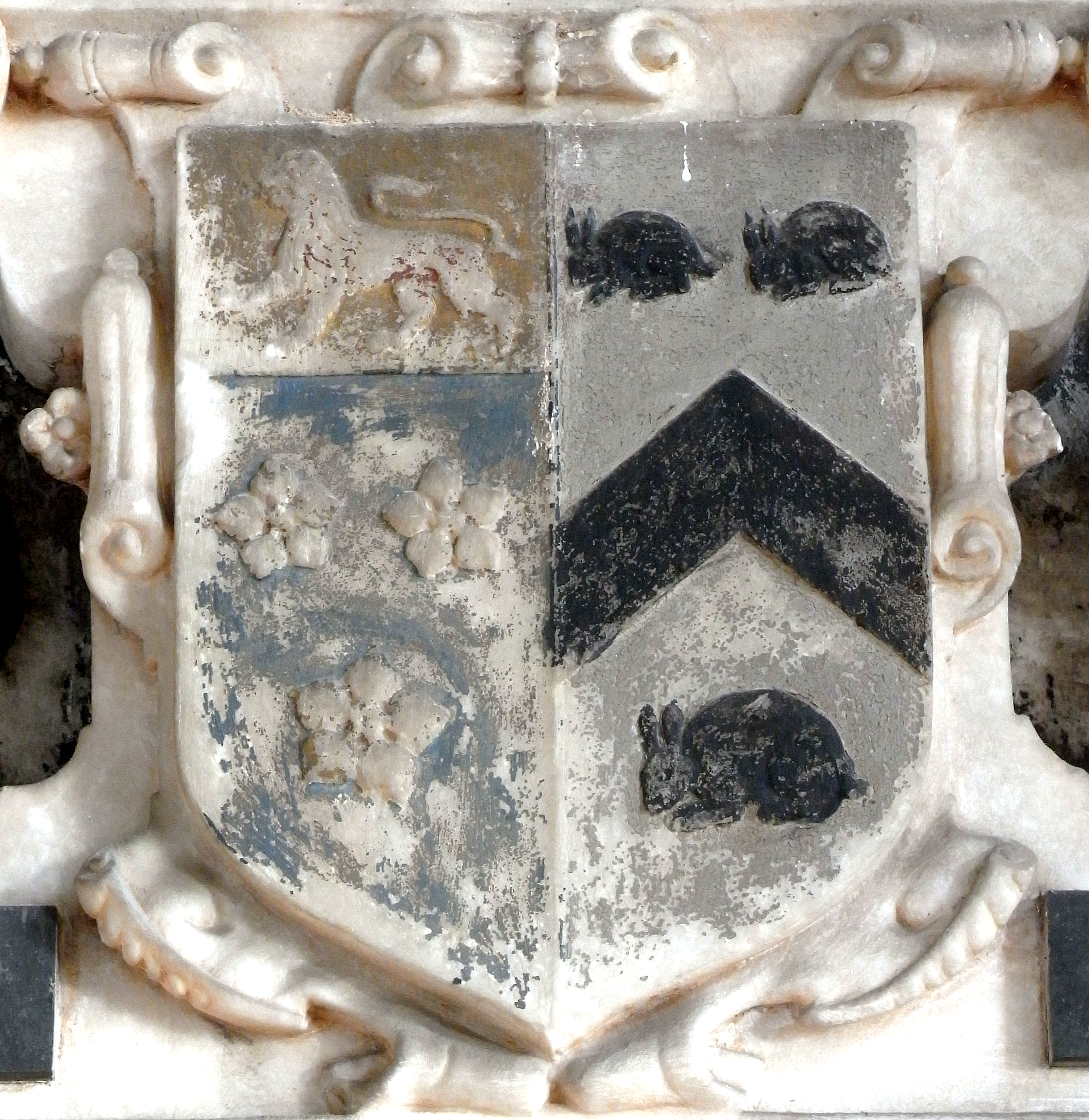 On an escutcheon within a strapwork surround, the arms of Sir John Davie, 1st Baronet (1588–1654) of Creedy in the parish of Sandford, near Crediton, Devon: Azure, three cinquefoils or on a chief of the last a lion passant gules impaling: Argent, a chevron between three conies courant sable (Strode of Newnham), the arms of his wife Juliana Strode (d.1627), a daughter of Sir William Strode (1562-1637), MP, of Newnham, Plympton St Mary, Devon. Detail from mural monument to Juliana Strode (d.1627), north aisle of Sandford Church, Devon